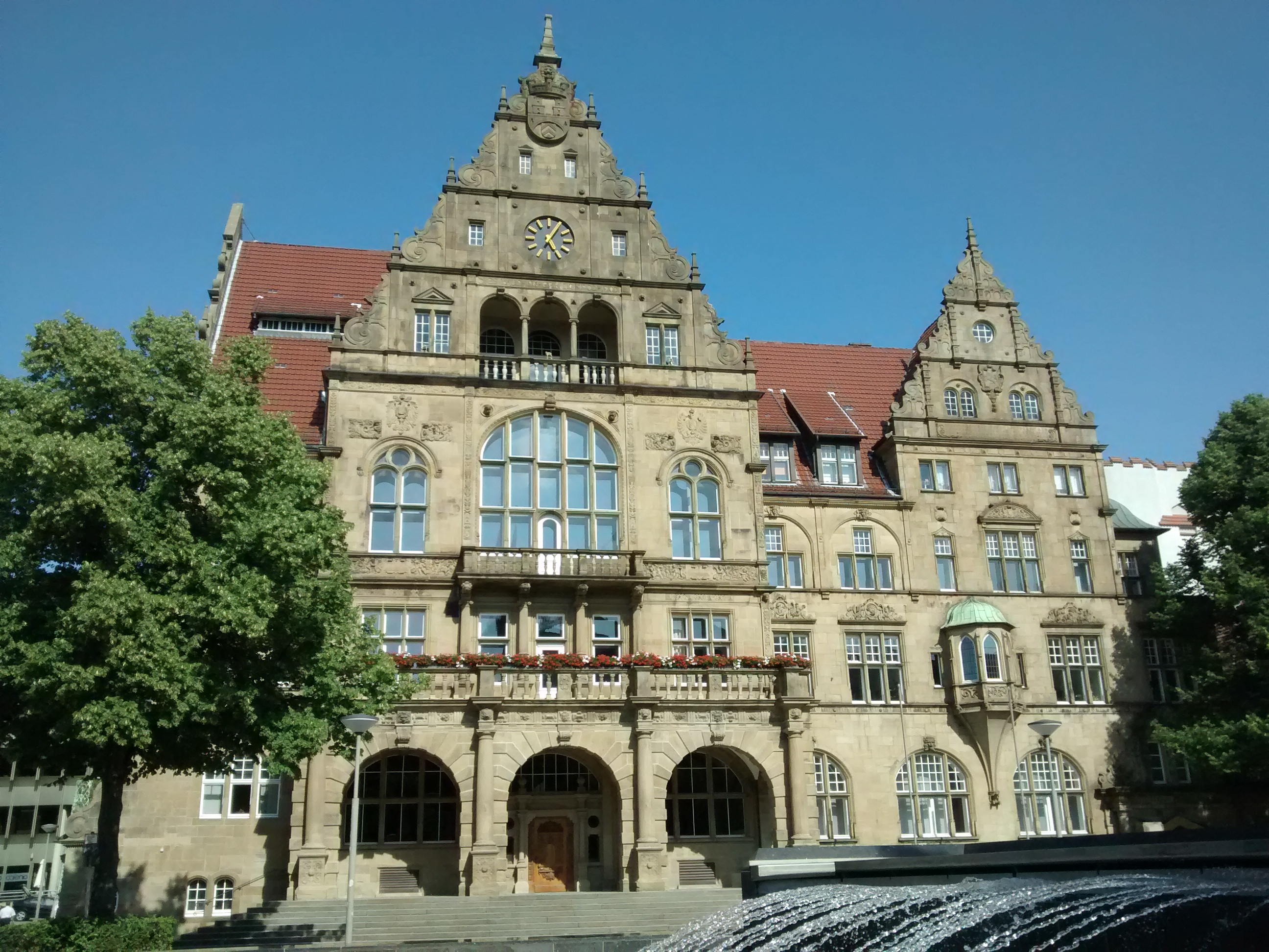 Old Town Hall in Bielefeld